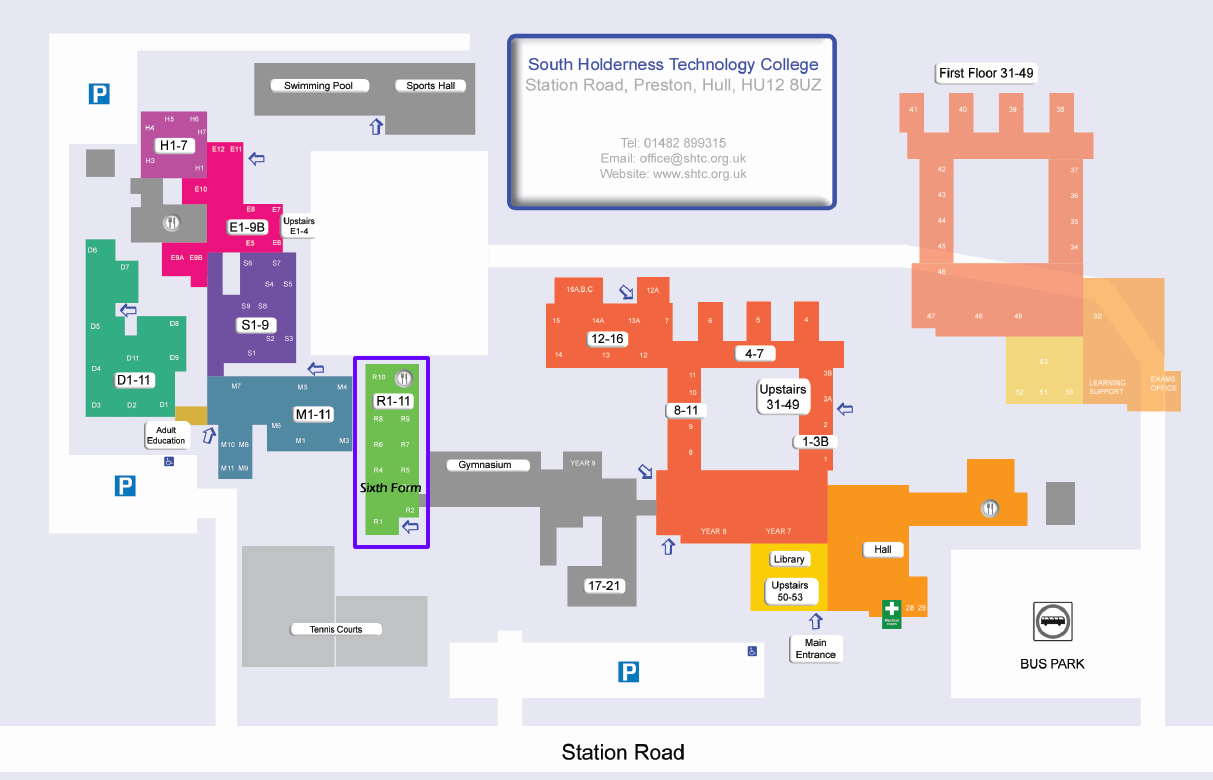 A Map that shows the layout of South Holderness Technology College, Preston, East Riding of Yorkshire, England.